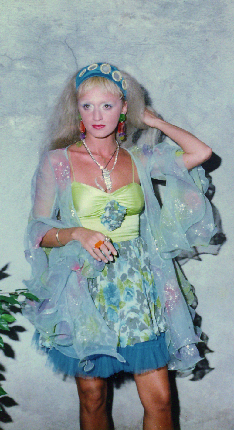 Dragana Šarić on the Summer stage (Letnja pozornica) in Niš in 1991